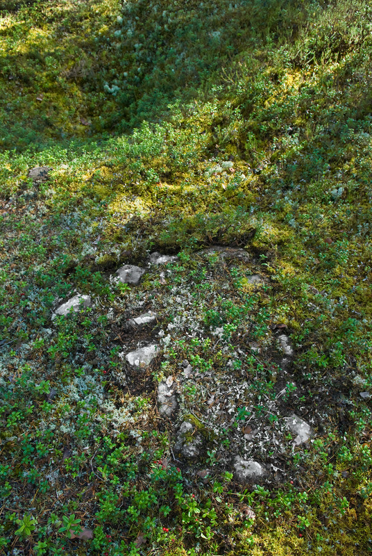 Remains of old Sami hearth in northern Sweden.